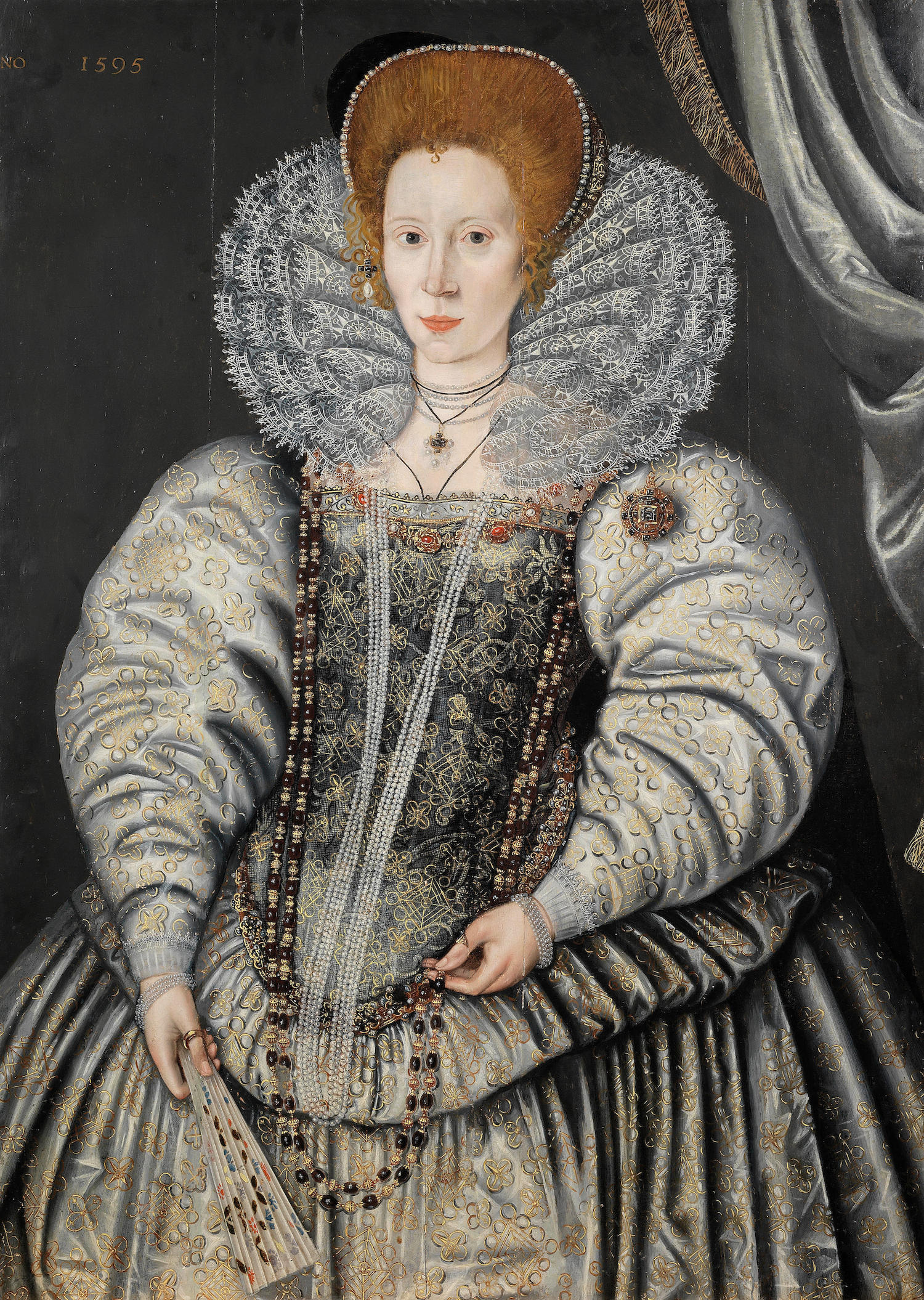 Portrait of an unknown lady dated 1595, traditionally called Elizabeth Throckmorton.